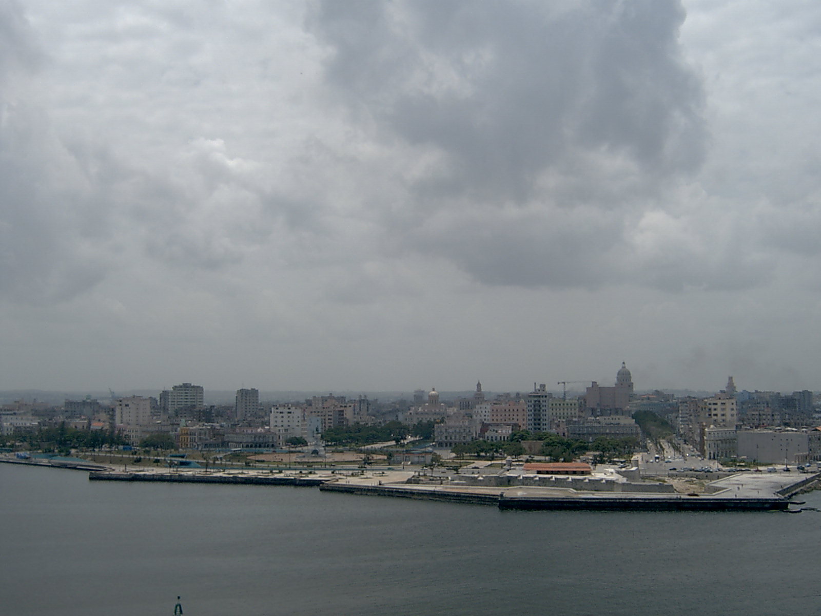 Castillo de San Salvador de la Punta, seen from el Castillo del Morro, in La Habana